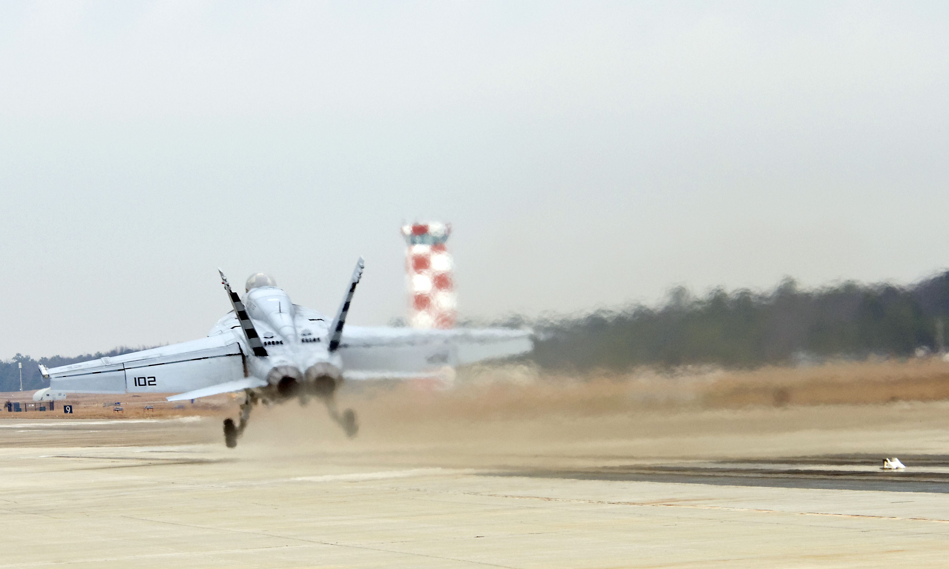 LAKEHURST, N.J. (Dec. 16, 2010) An F/A-18E Super Hornet is launched during a test of the Electromagnetic Aircraft Launch System (EMALS) at Naval Air Systems Command, Lakehurst, N.J. The Navy has used steam catapults for more than 50 years to launch aircraft from aircraft carriers. EMALS is a complete carrier-based launch system designed for Gerald R. Ford (CVN 78) and future Ford-class carriers. Newer, heavier and faster aircraft will result in launch energy requirements approaching the limits of the steam catapult, increasing maintenance on the system. The system's technology allows for a smooth acceleration at both high and low speeds, increasing the carrier's ability to launch aircraft in support of the warfighter. EMALS will provide the capability for launching all current and future carrier air wing platforms from lightweight unmanned aerial vehicles to heavy strike fighters. The first ship components are on schedule to be delivered to CVN 78 in 2011. (U.S. Navy photo/Released)